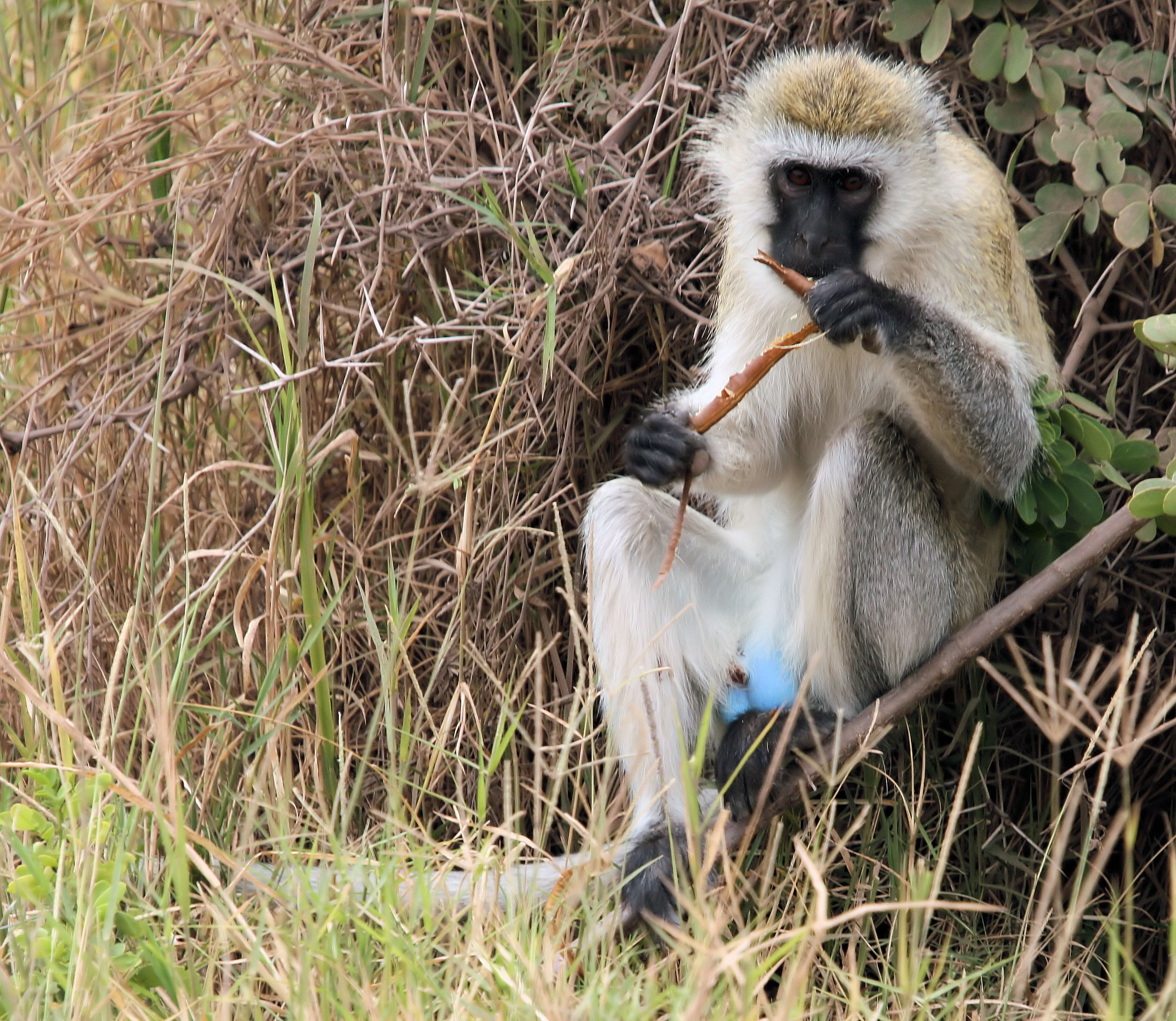 Vervet Monkey (Chlorocebus pygerythrus), picture taken at Lake Manyara Nationalpark, Tanzania